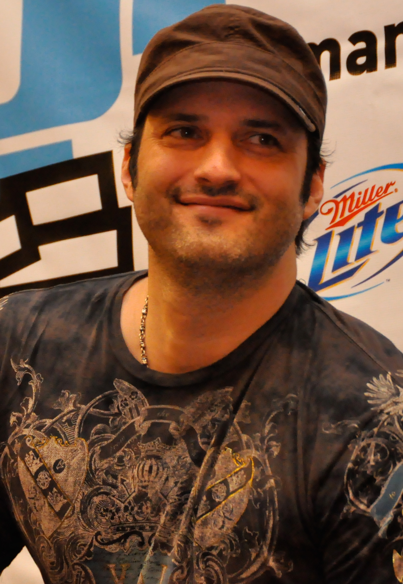 Spy Kids director Robert Rodriguez answered audience questions for nearly an hour overtime at the South by Southwest film festival.